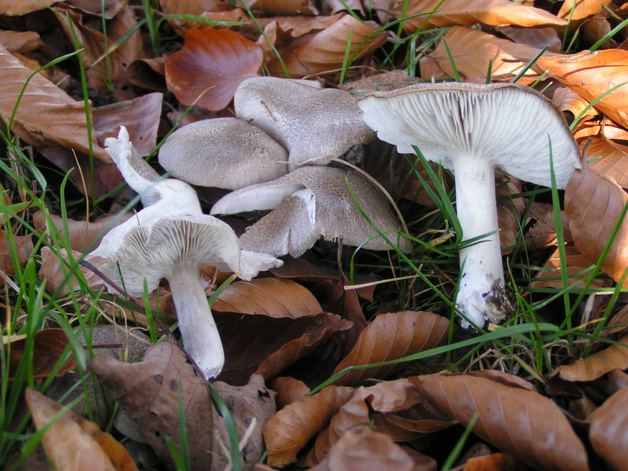 Tricholoma terreum - Tricholomataceae - Agaricales; de: Erdritterling